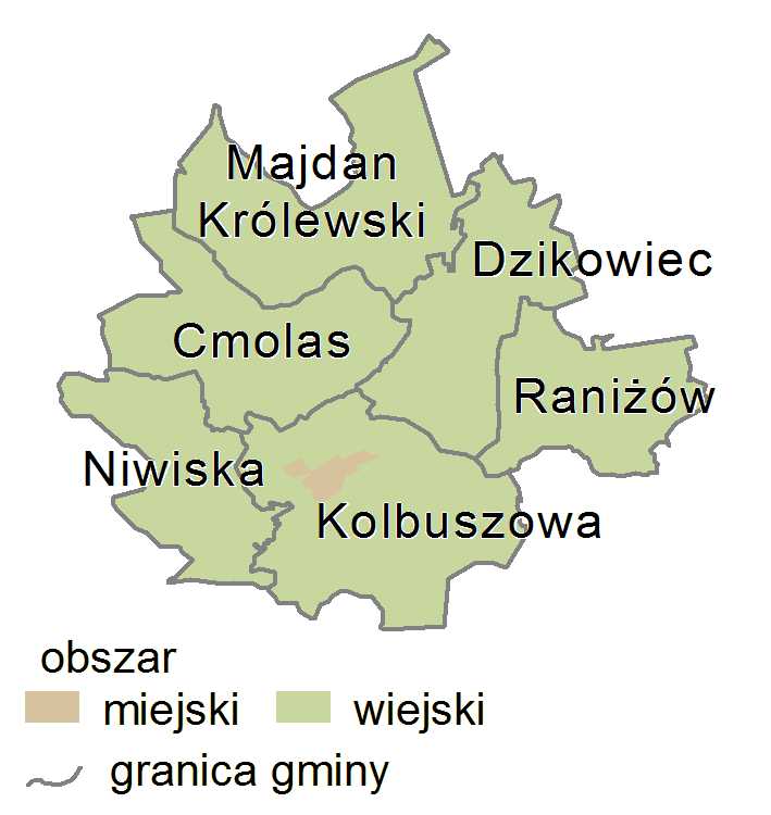 Subcarpathian Voivodeship - kolbuszowski county gminas